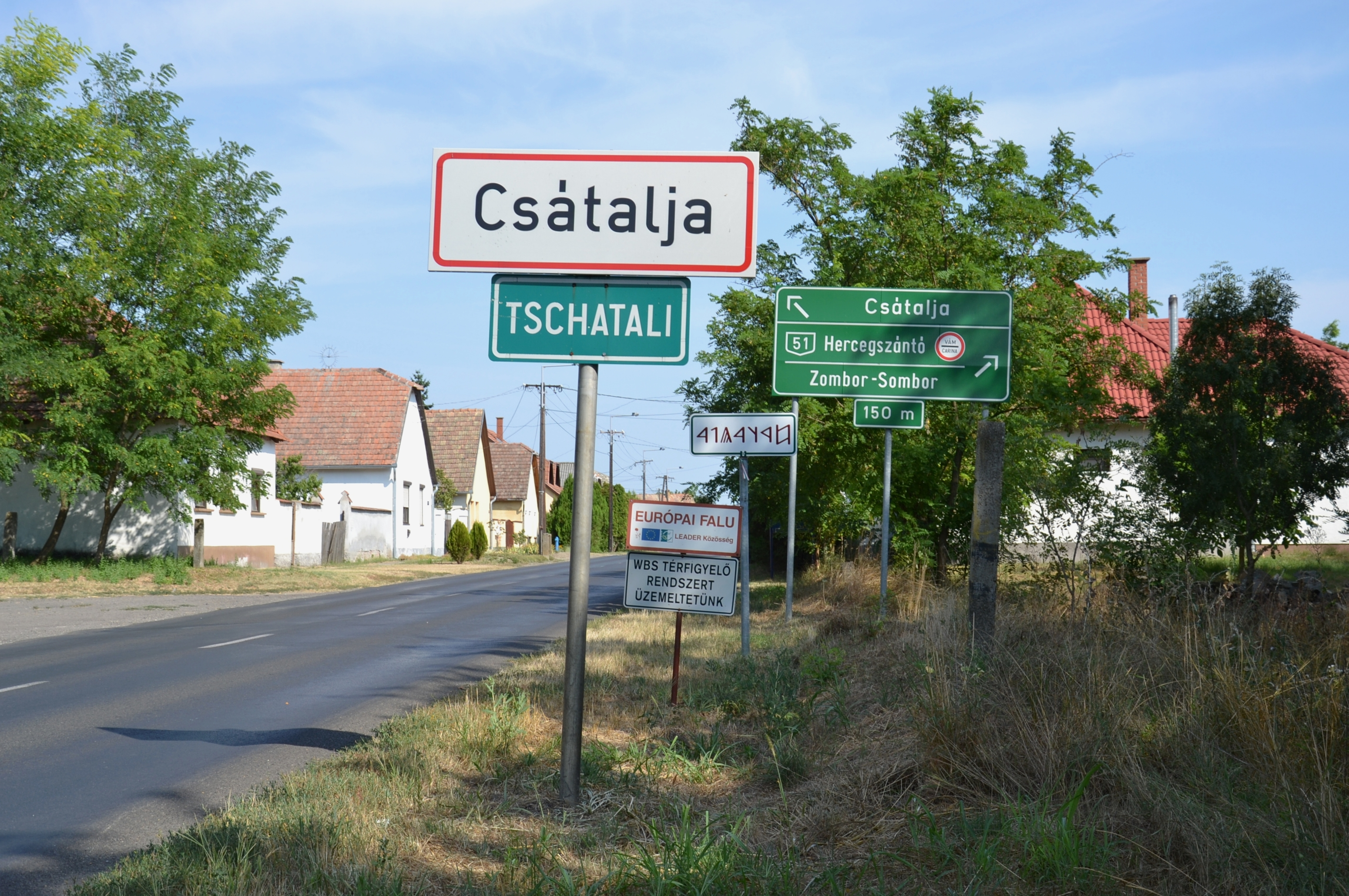 Csátalja (Tschatali) - bilingual city limit sign